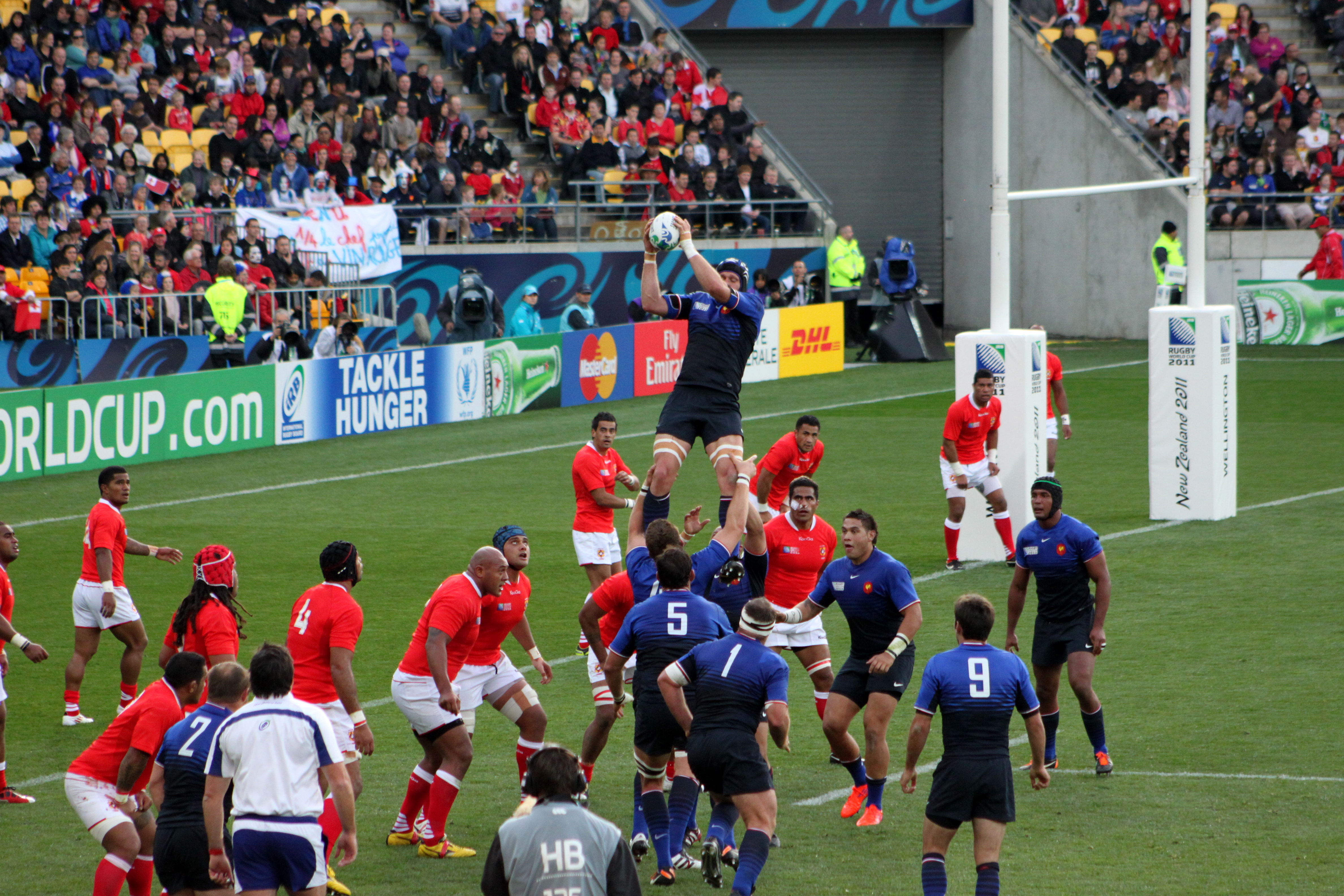 Match between France and Tonga during 2011 Rugby World Cup in New Zealand.